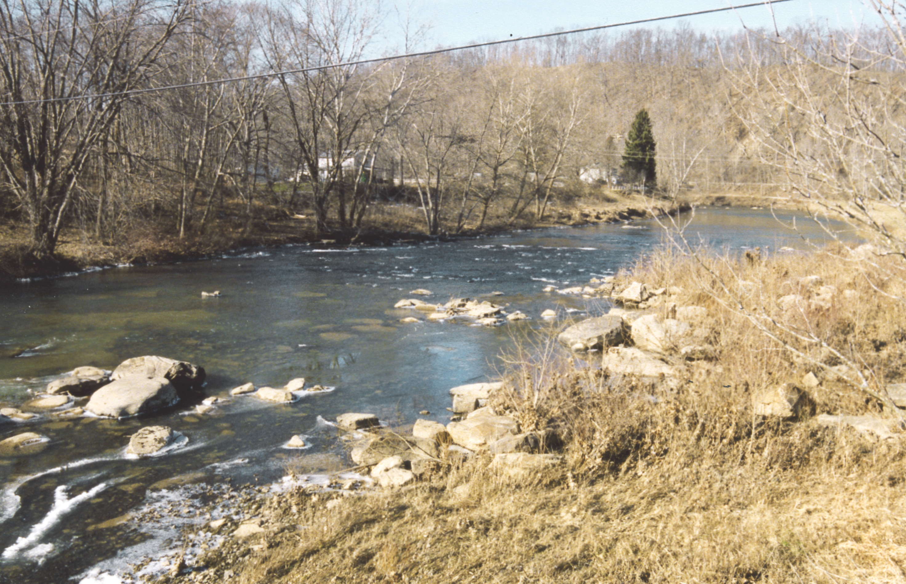 The Buckhannon River as viewed from County Road 11 in Rangoon, West Virginia